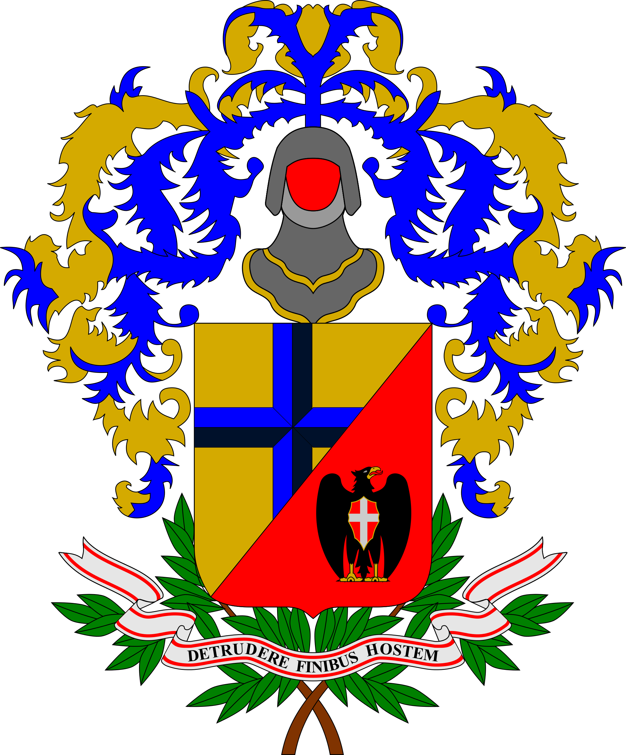 Coat of Arms of the 42nd Infantry Regiment "Modena", Royal Italian Army, 1939